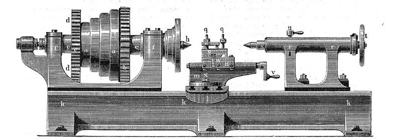 a lathe